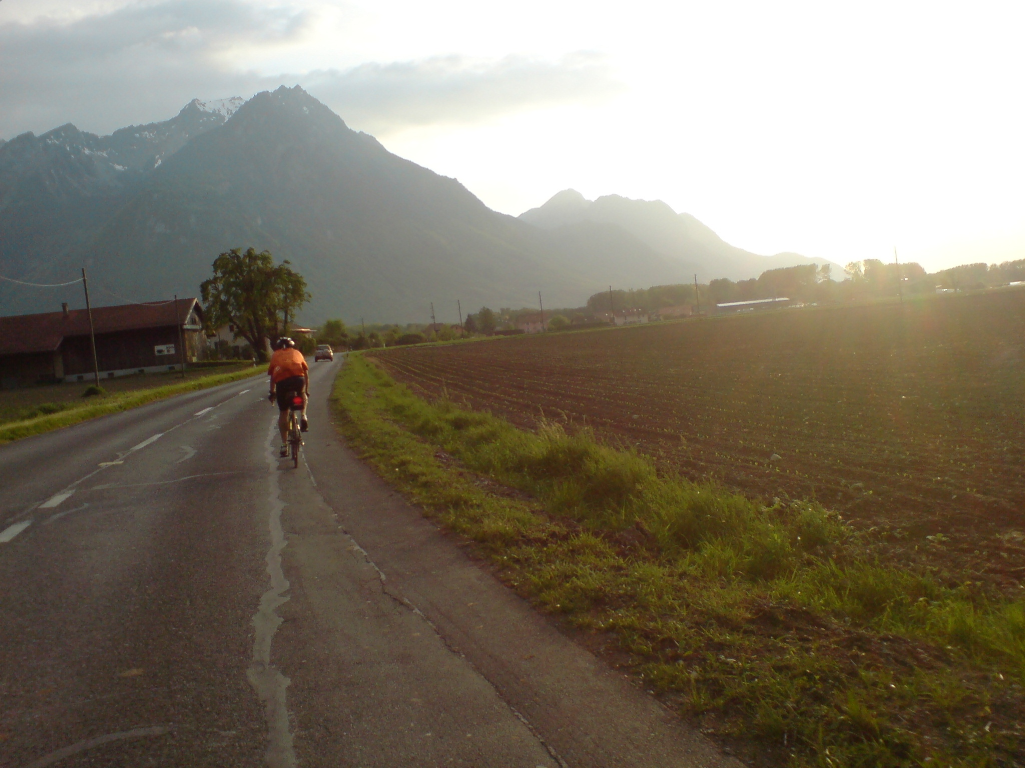 Outside Noville, Vaud, Switzerland